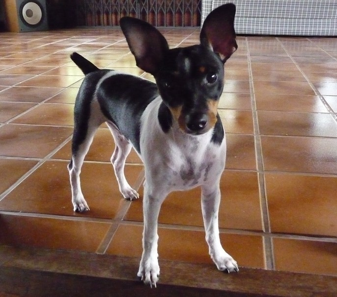 Brazilian Terrier, original was uploaded from Flickr